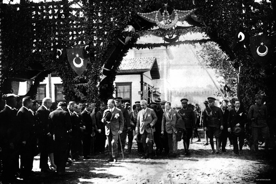 Kemal Atatürk (or alternatively written as Kamâl Atatürk, Mustafa Kemal Pasha until 1934, commonly referred to as Mustafa Kemal Atatürk; 1881 – 10 November 1938) was a Turkish field marshal, revolutionary statesman, author, and the founding father of the Republic of Turkey, serving as its first President from 1923 until his death in 1938. He undertook sweeping progressive reforms, which modernized Turkey into a secular, industrial nation. Ideologically a secularist and nationalist, his policies and theories became known as Kemalism. Due to his military and political accomplishments, Atatürk is regarded as one of the most important political leaders of the 20th century.